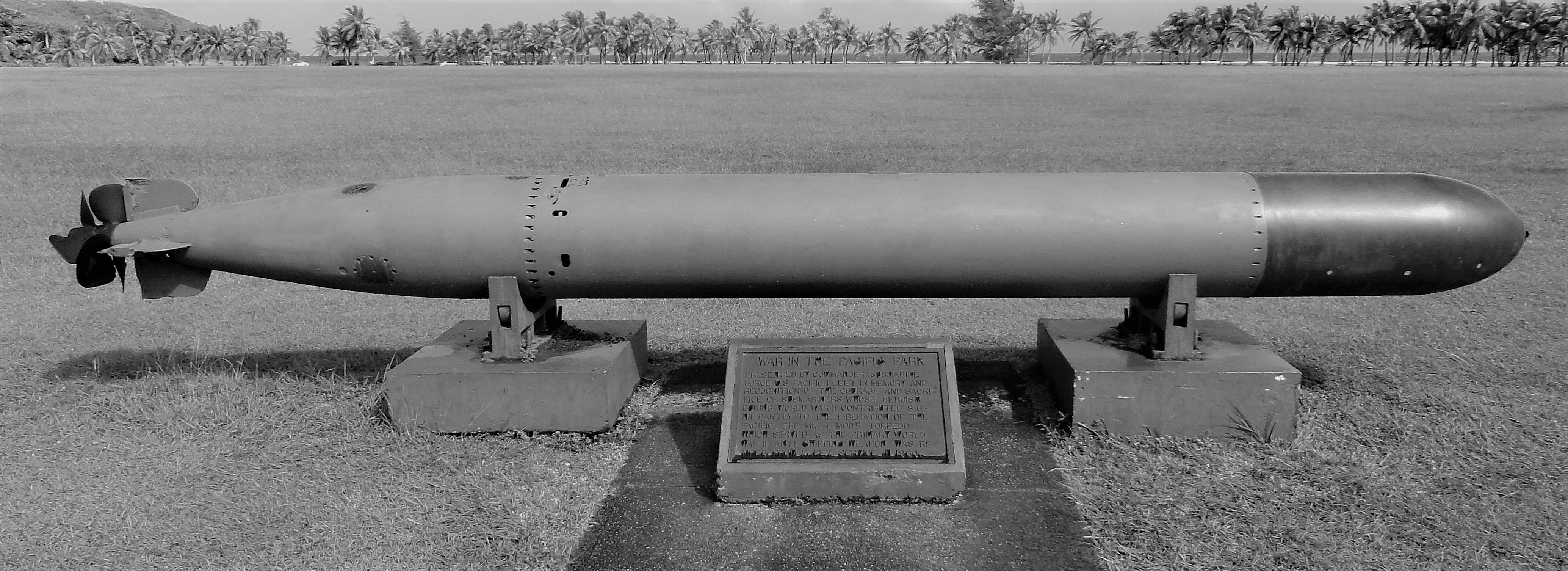 War in the Pacific National Historical Park (Asan Beach Unit), Asan, Guam, USA.